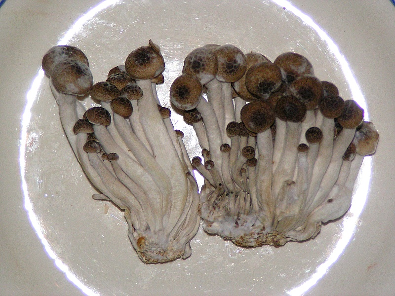 Beech mushroom